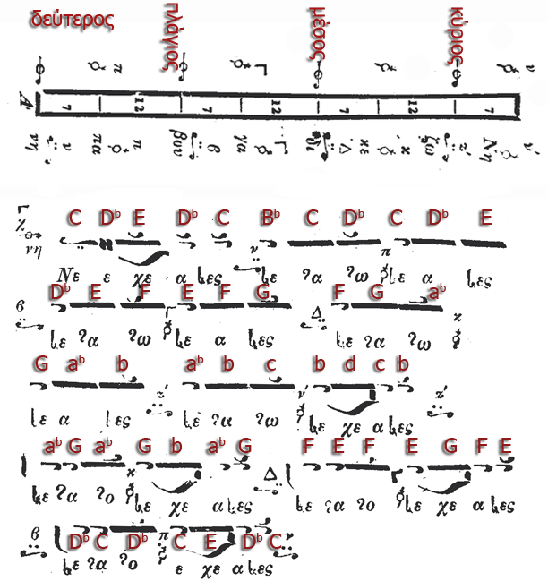 Parallage (solmization) of the soft chromatic scale according Chrysanthos, the echos devteros (ἦχος δεύτερος) in the current traditions of Orthodox Chant.